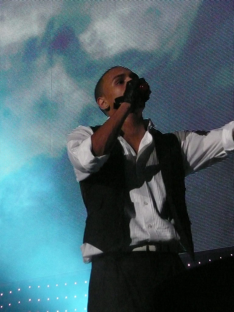 Rihanna and Chris Brown concert. Brisbane Entertainment Centre. November 1st 2008